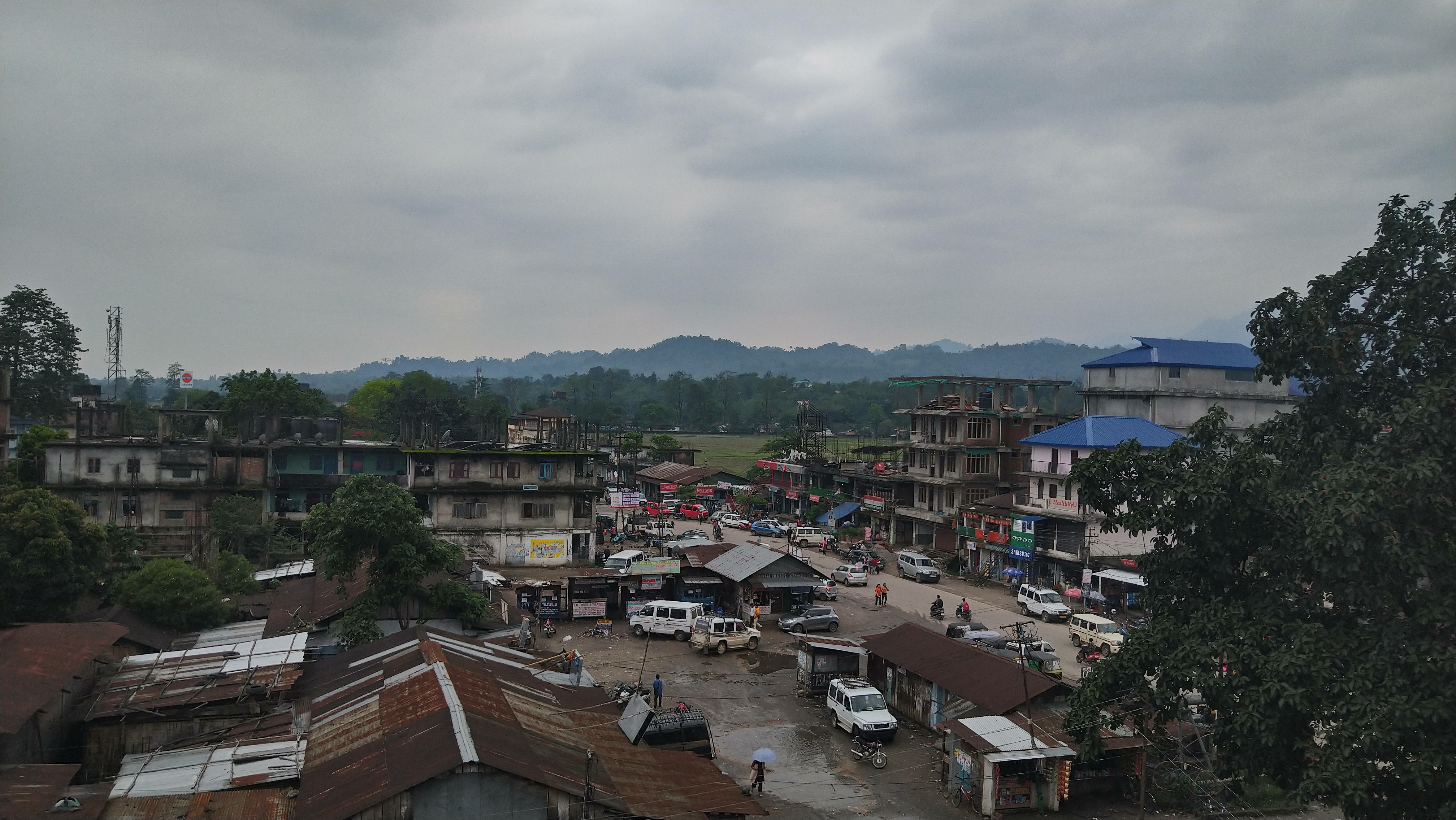 View of Pasighat town on 9th May 2019. I clicked this on my trip for Wikipedia article